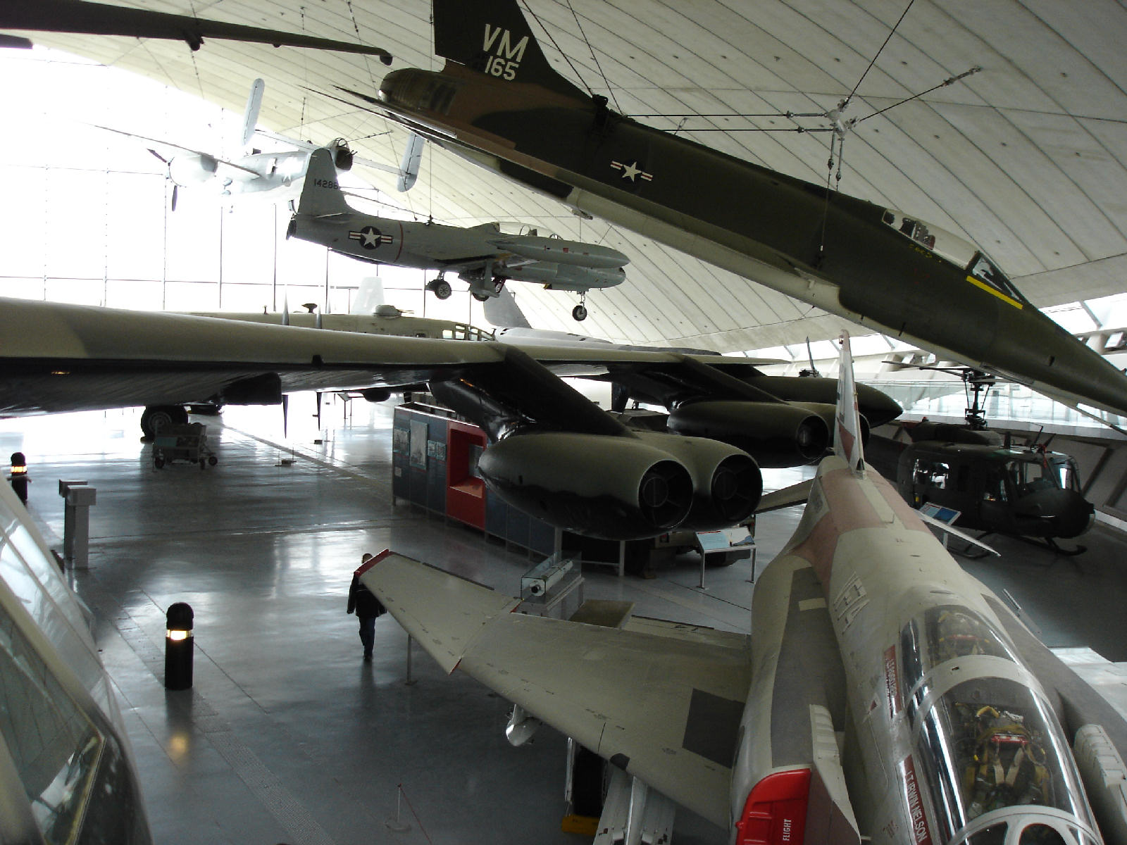 American Air Museum, at the Imperial War Museum Duxford.